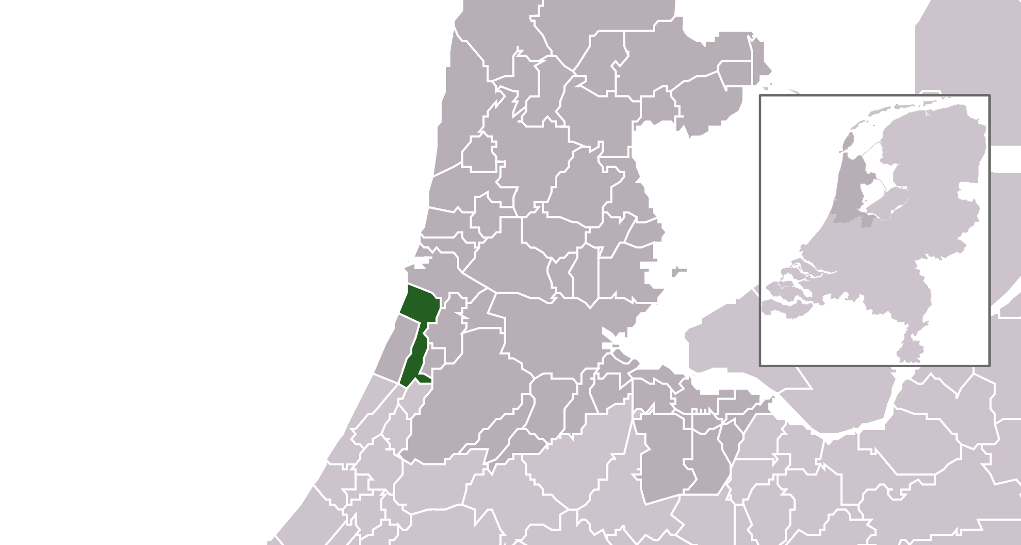 Location maps for the 441 municipalities in the Netherlands. Boundaries 1/1/2009 Automatically generated with script File name contains "Municipality code" (CBS-code) as specified in: [1] Created in svg using coordinate data derived from ESRI data published by Centraal Bureau voor de Statistiek, Voorburg/Heerlen. ([2]) Color coding and original design (slightly adpated by me) by user Mtcv (2006/2007) ([3]) Updated until January 1, 2014 The copyright holder of this file, Centraal Bureau voor de Statistiek, allows anyone to use it for any purpose, provided that the copyright holder is properly attributed. Redistribution, derivative work, commercial use, and all other use is permitted. Attribution: Centraal Bureau voor de Statistiek This work is free and may be used by anyone for any purpose. If you wish to use this content, you do not need to request permission as long as you follow any licensing requirements mentioned on this page.